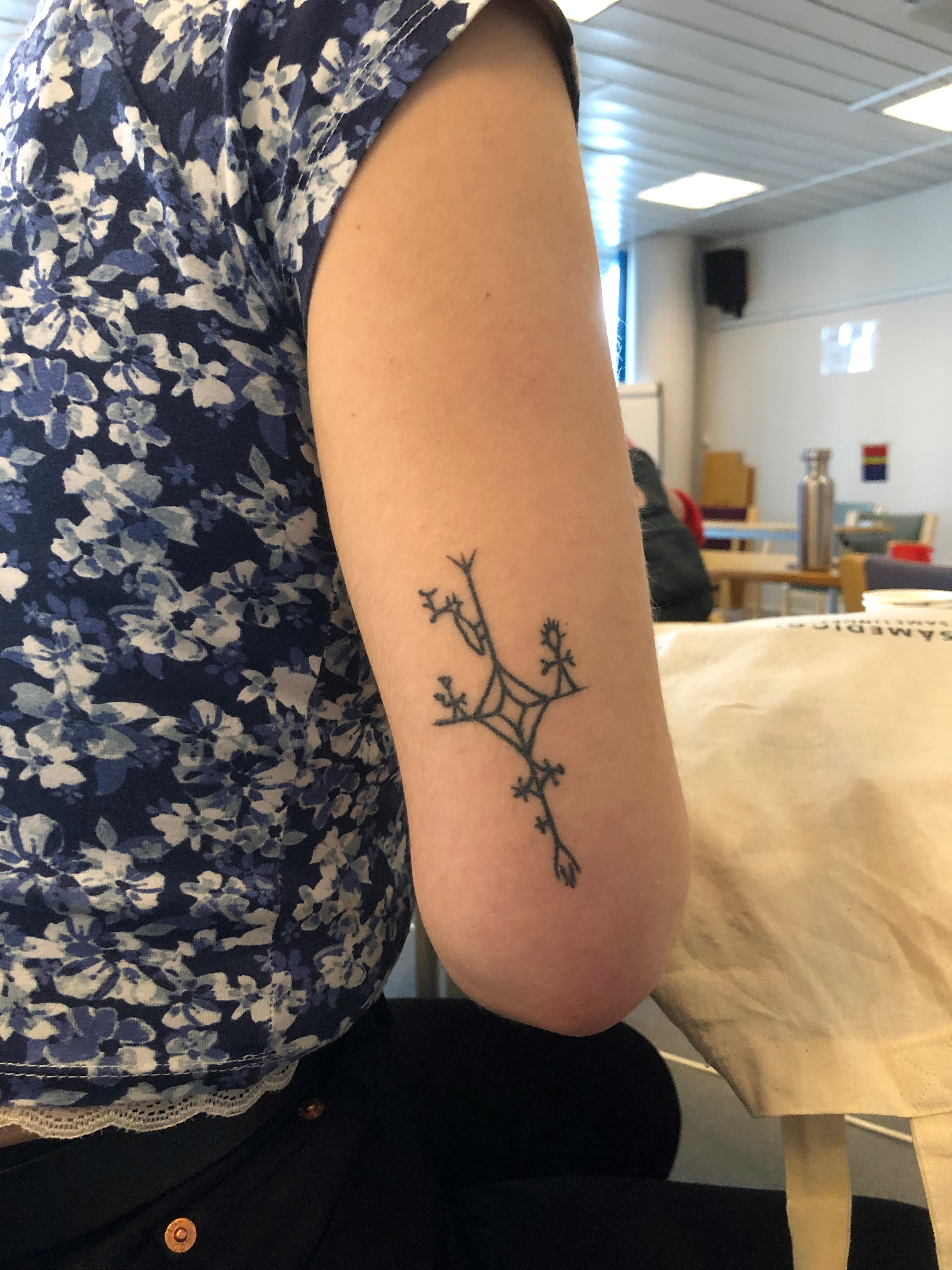 The central elements from the motives at the sami drum known as Freavnantjahke gievrie (or Frøyningsfjelltromma) used as a personal tattoo by a young Saami woman in 2018.